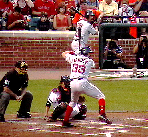 Jason Varitek at bat in 2008. Enhanced with Adobe Photoshop.